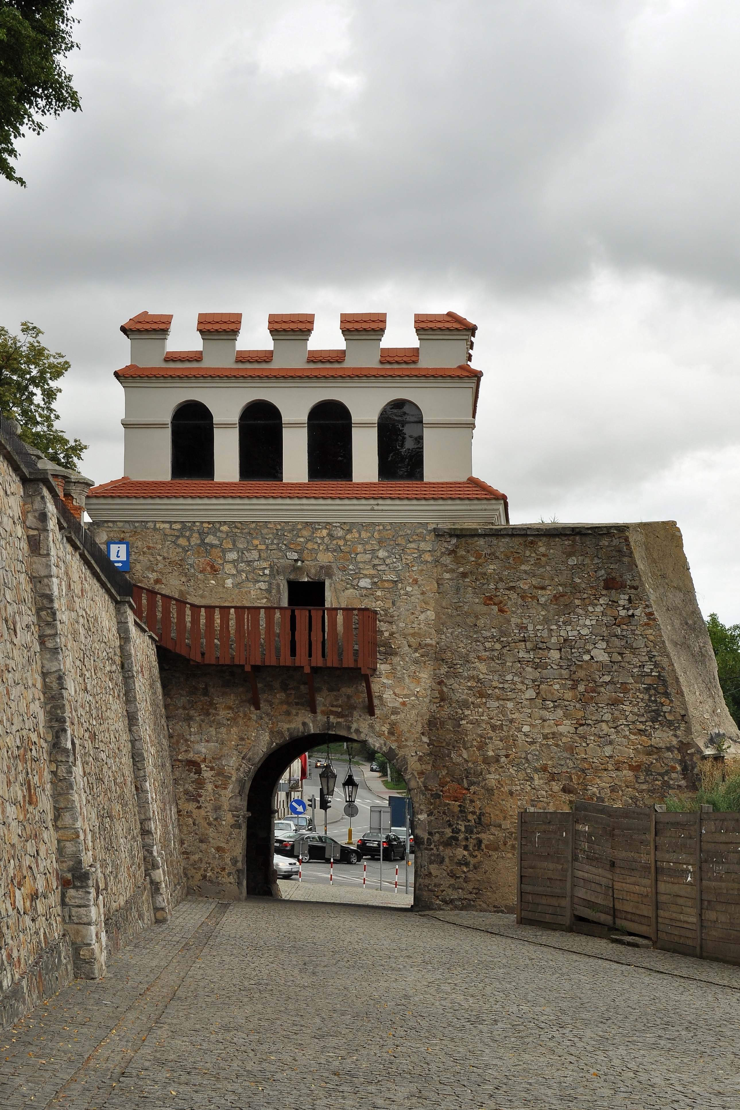 Warsaw Gate in Opatów.